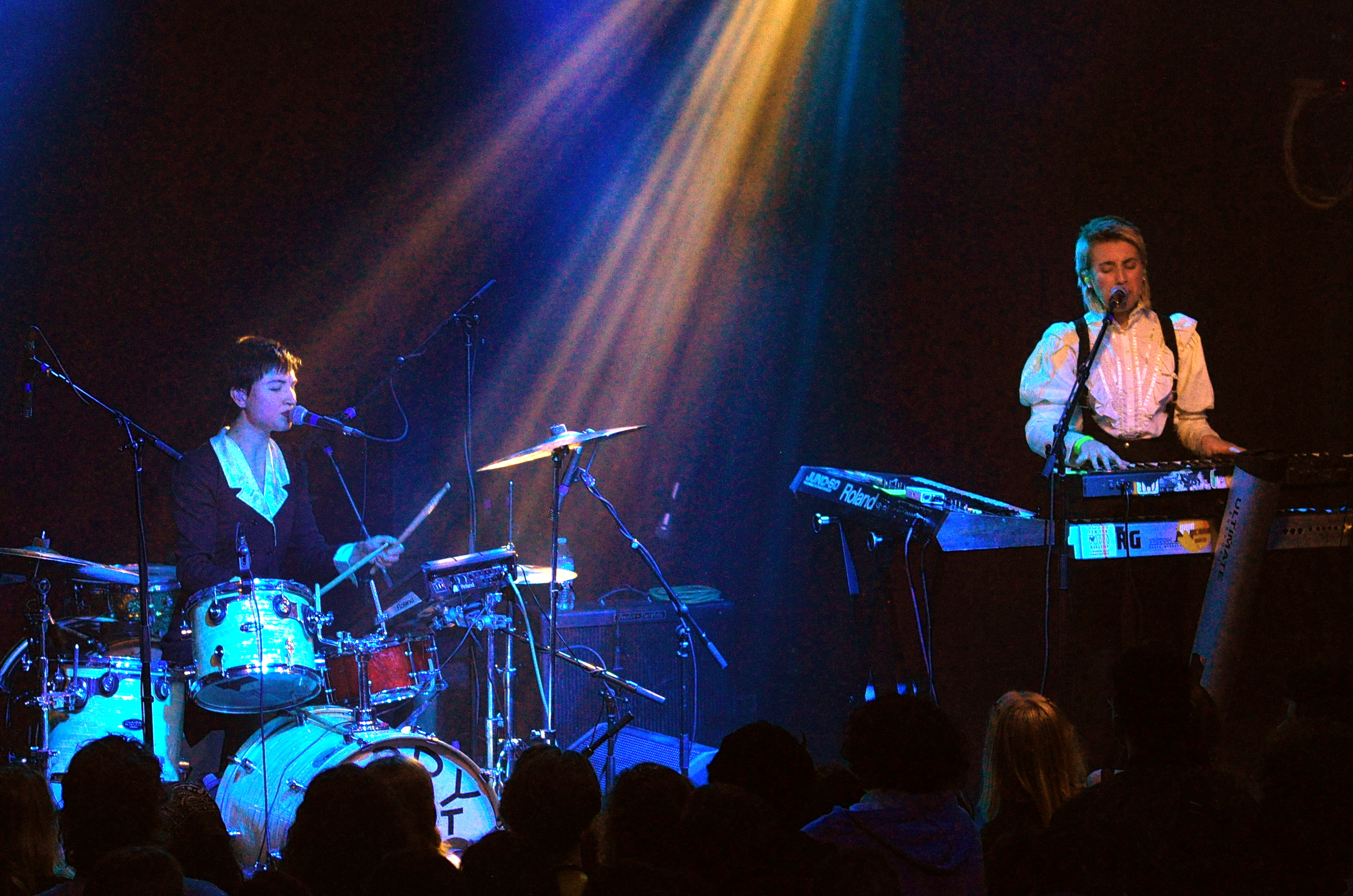 Chaos Chaos performing at Neumos in Seattle November 30, 2017.